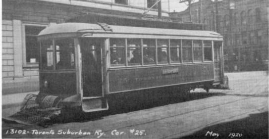 Streetcar on Davenport Road, Toronto, May 1920